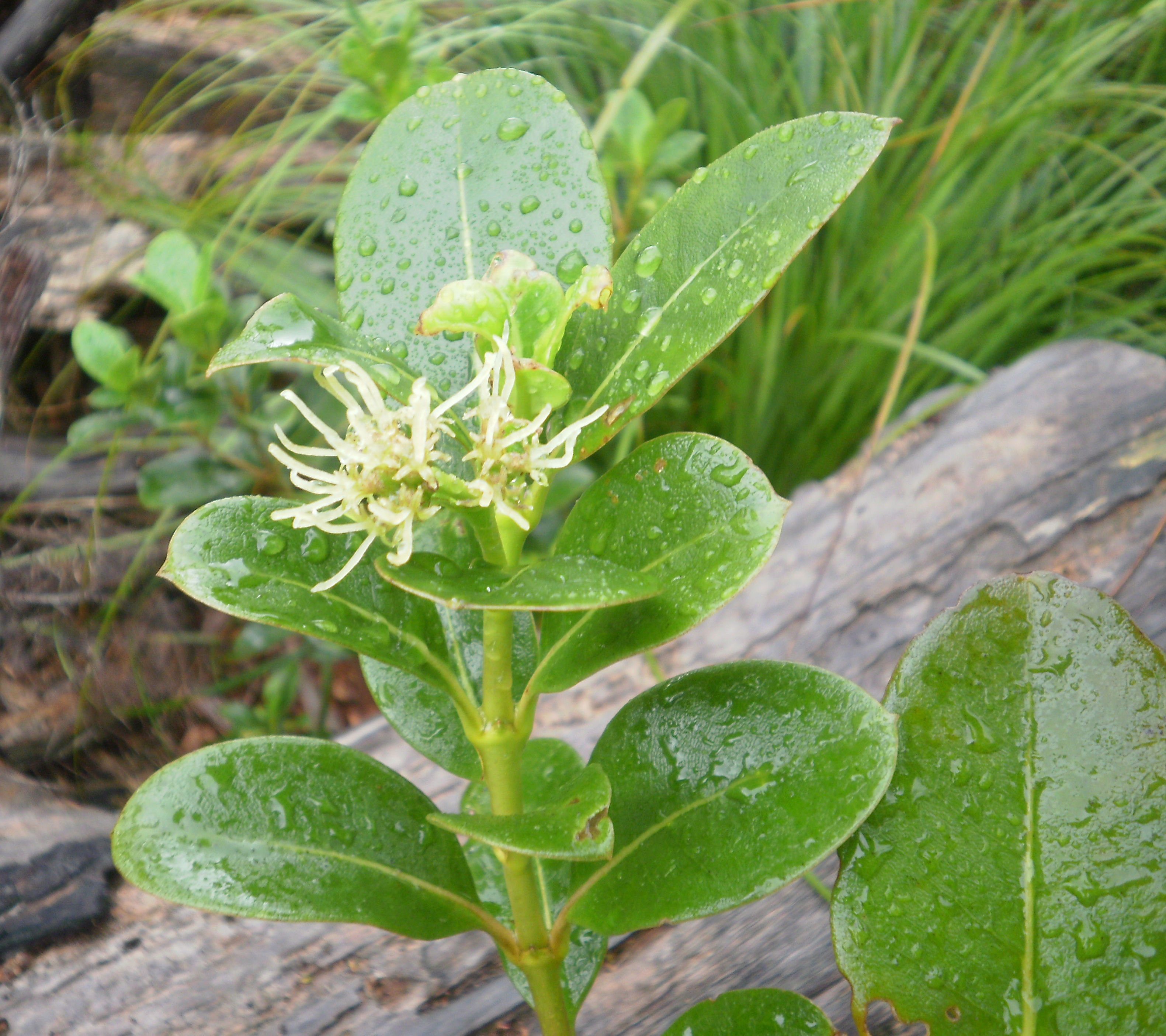 Coprosma lucida, karamu, flowering in Wellington, New Zealand.